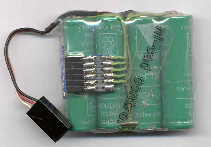 4-battery pack with diagnostic connections